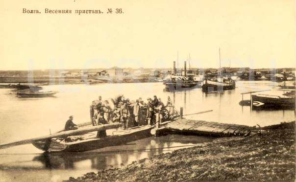 A primitive ferry on the Volga